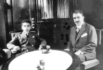 Crown Prince Mohammad Reza Pahlavi and Minister Teymourtash